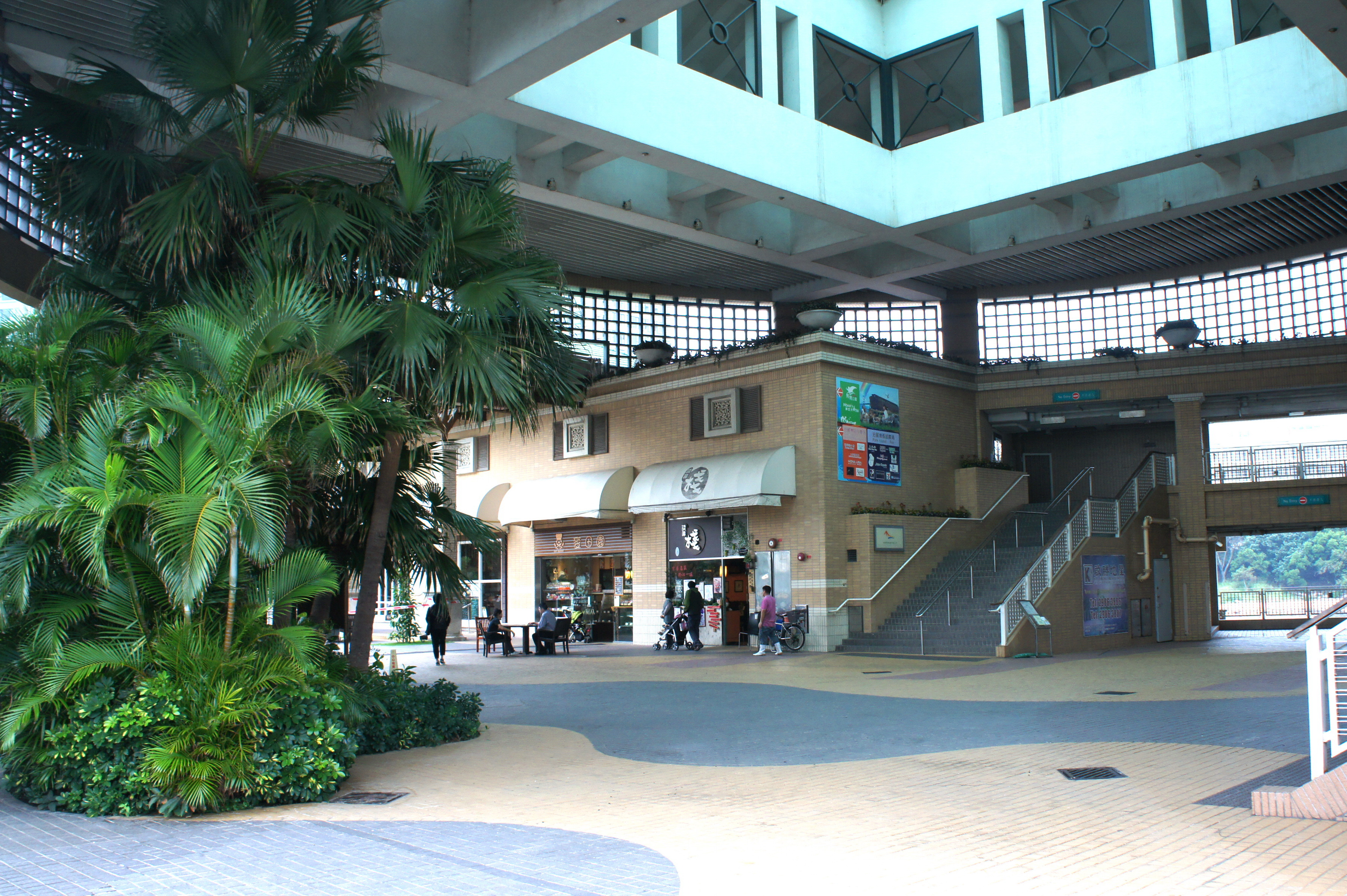 Concourse of the Park Island Ferry Pier, Ma Wan, Hong Kong.